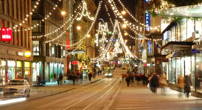 Christmas-lit Aleksanterinkatu, one of the primary shopping streets in Helsinki, Finland.